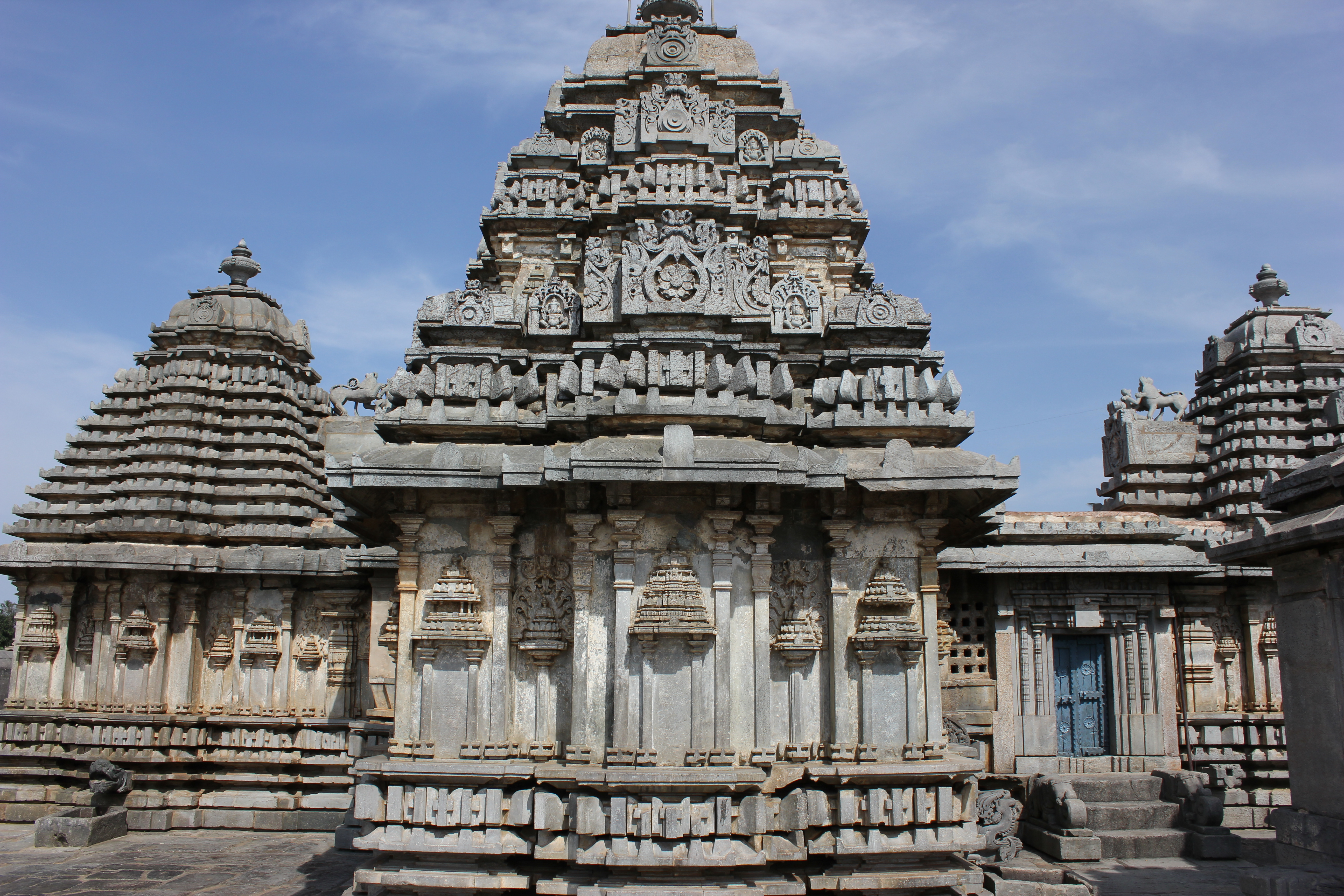 This photographh was taken by me (Dinesh Kannambadi) at the Lakshmi Devi Temple at Doddagaddavalli, Hassan district, Karnataka state, India. The temple was built in 1113 AD by Hoysala Empire King Vishnuvardhana.